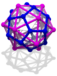 Semitransparent model of a rhombic tricontahedron with an inscribed dodecahedron and icosahedron.